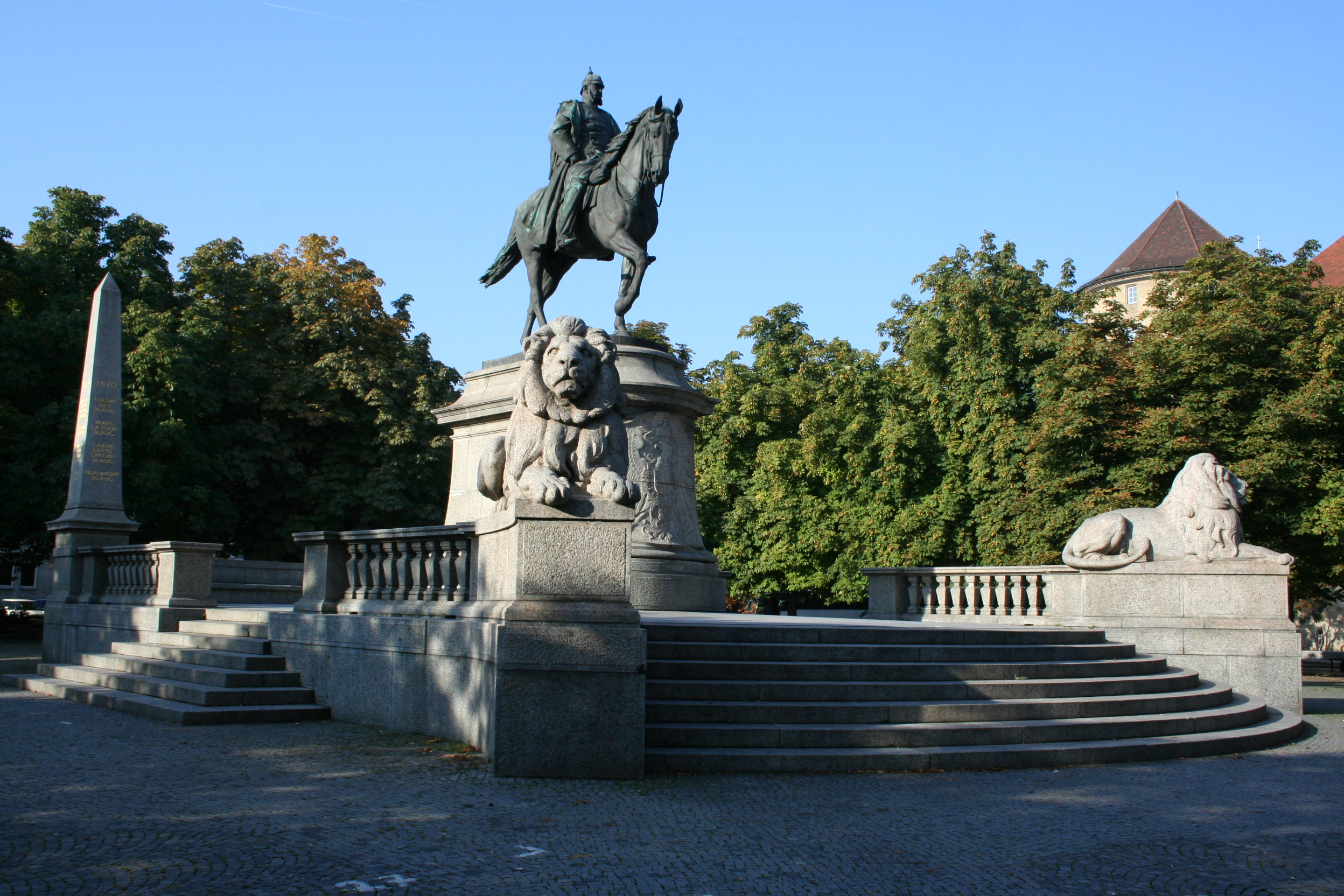 Memorial of Wilhelm I. Karlsplatz, Stuttgart